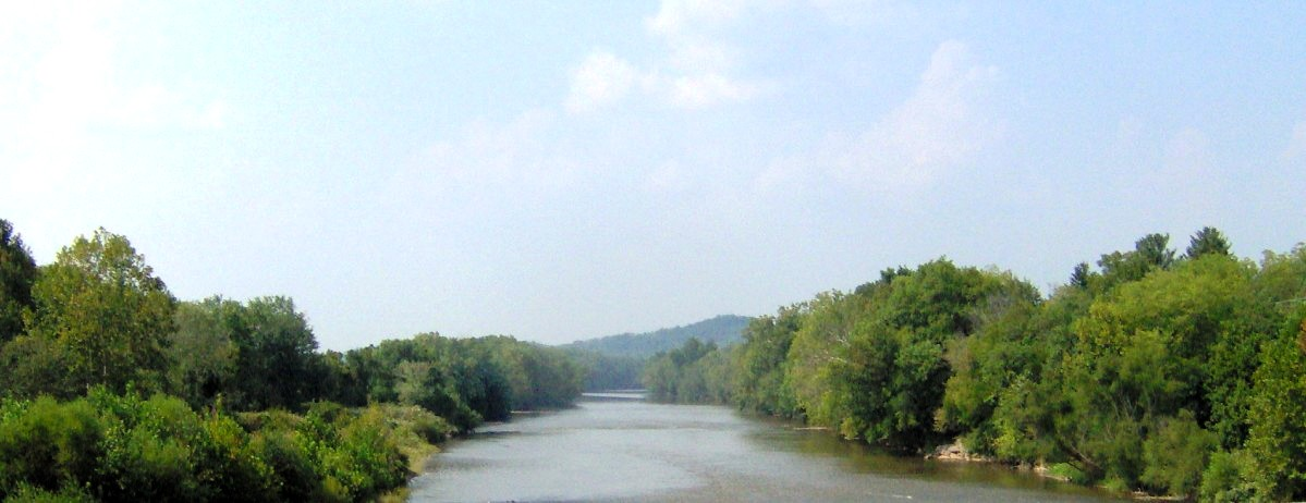 The French Broad River in Newport, Tennessee (the "Oldtown" section of Newport is on the left). Fine's Ferry, built in the 1780s, would have been located somewhere along this stretch.